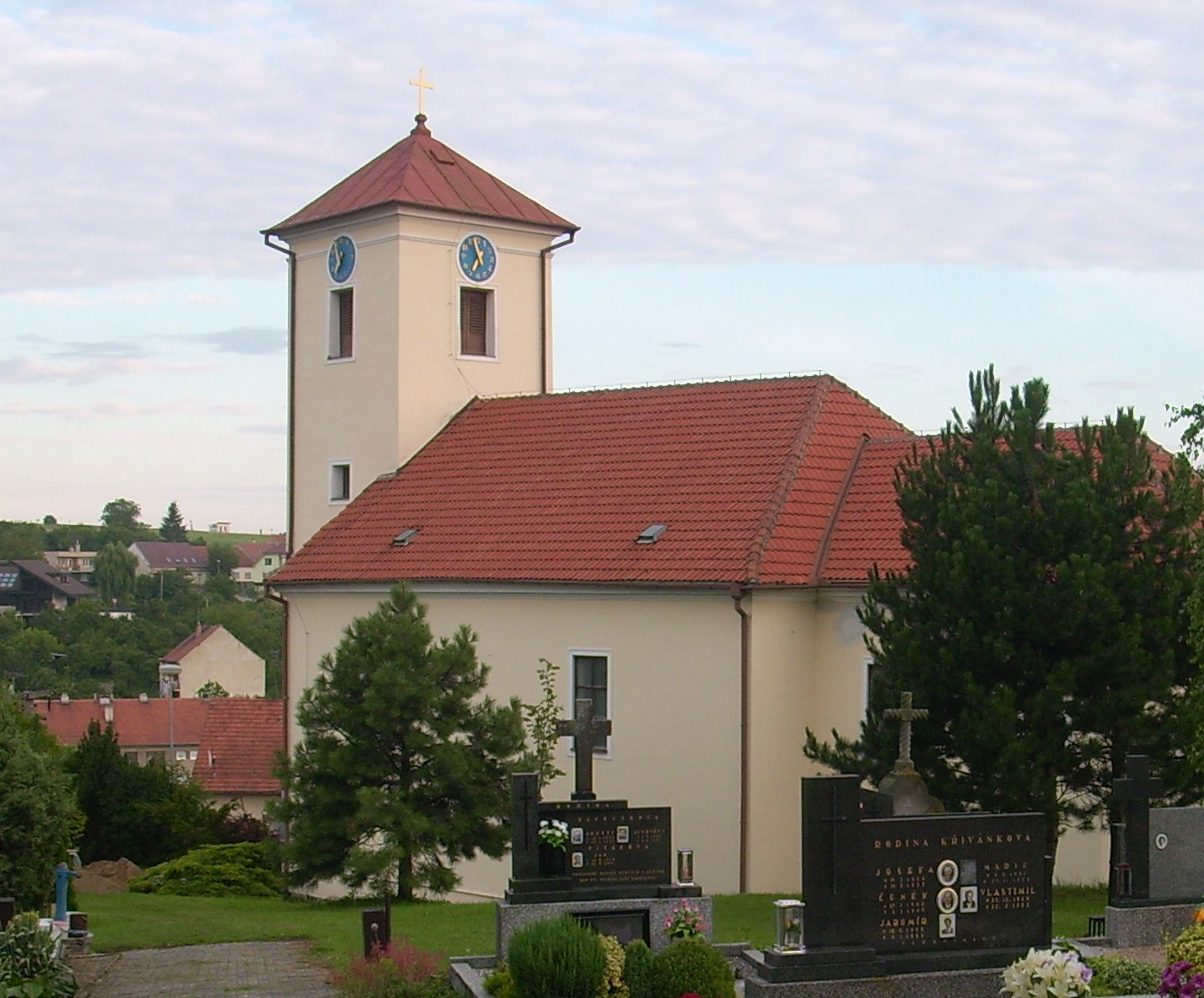 Church of St. Kunhuta in Nížkovice